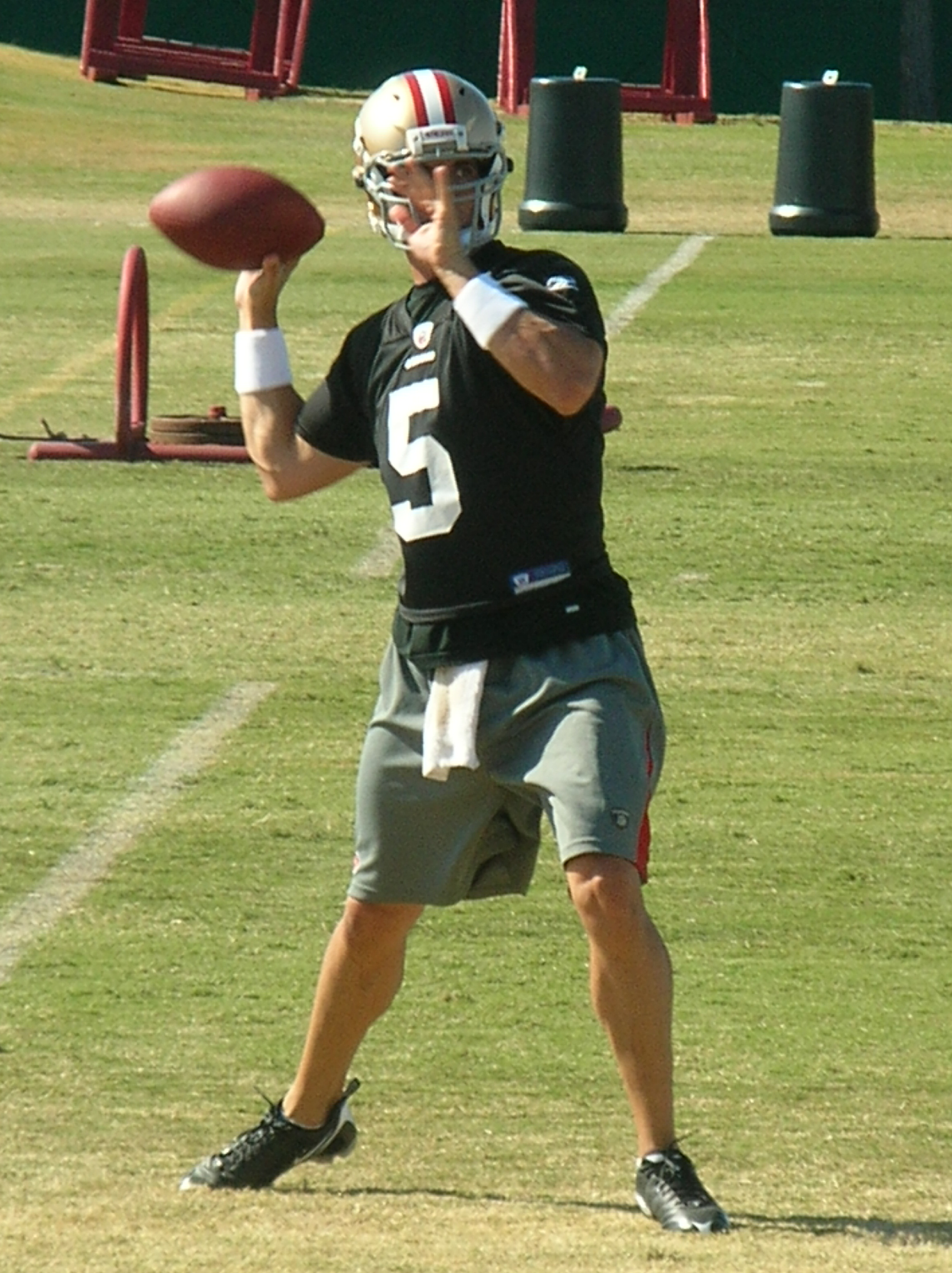 San Francisco 49ers quarterback David Carr at training camp in Santa Clara, California.